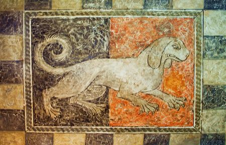 This Talbot Dog was painted upon the ceiling of the Dining Room after Sir Henry Vernon (1445 - 1515) married Ann Talbot, daughter of the Earl of Shrewsbury. (Derbyshire)